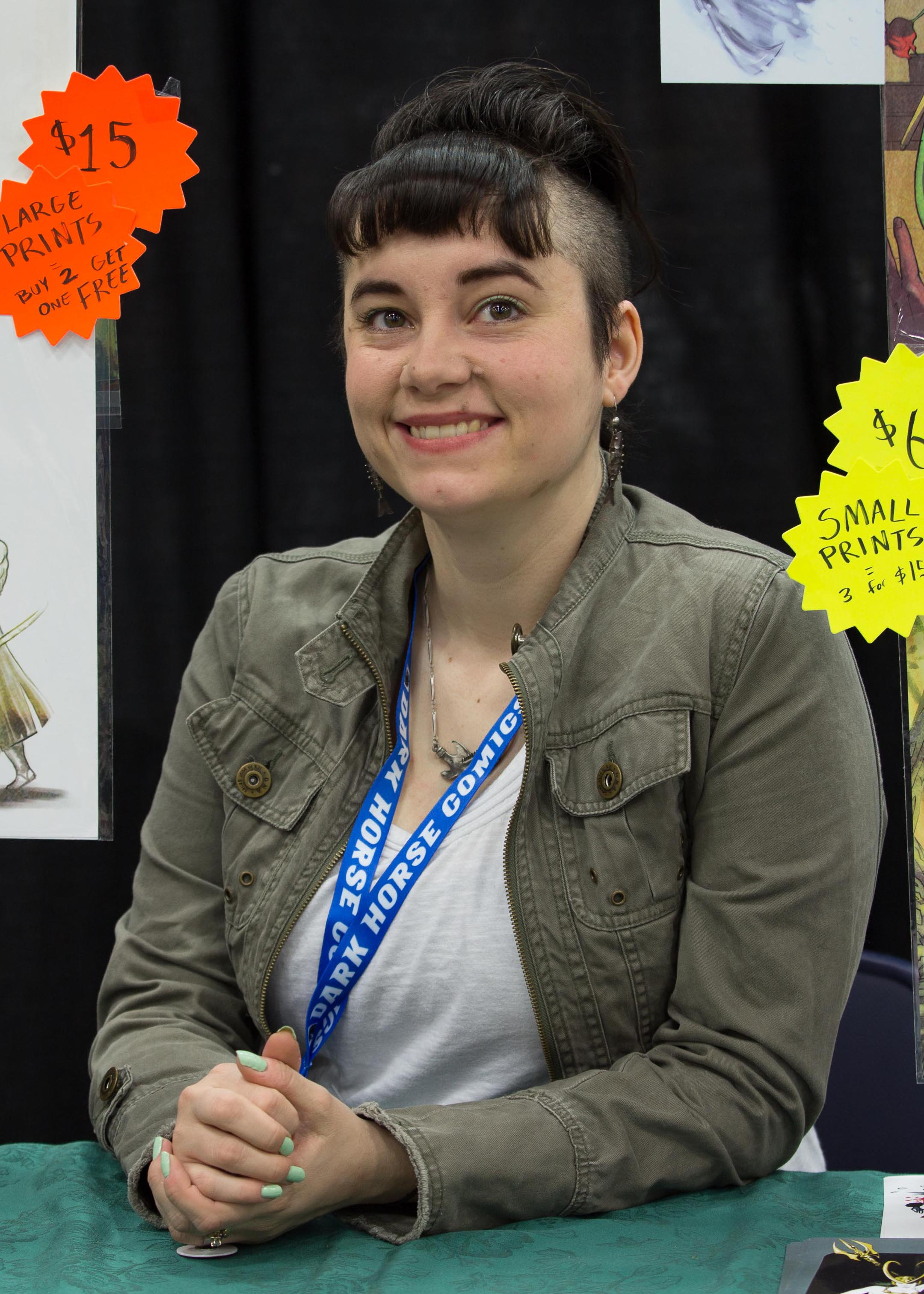 Joanna Estep of Thrilling Adventure Hour